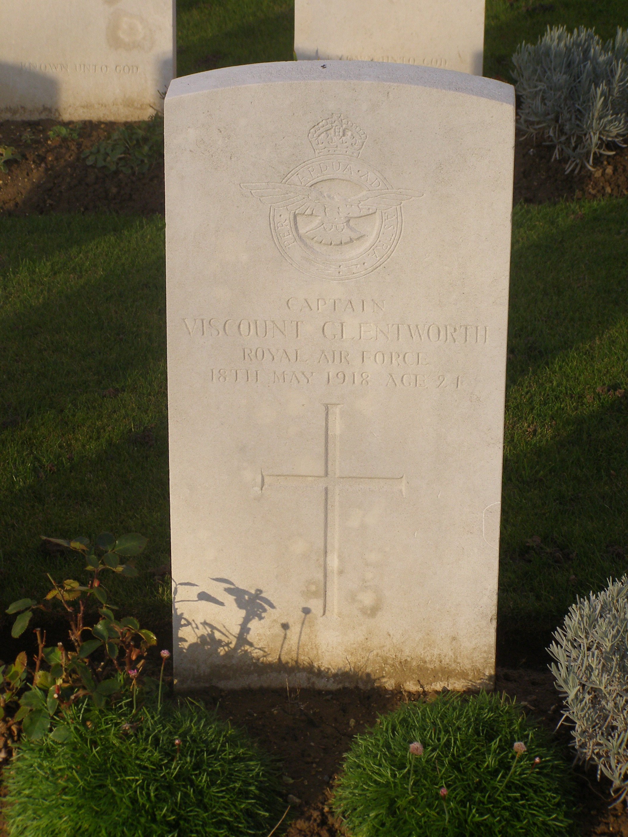 Vis en Artois Cemetery, France (Commonwealth War Graves Commission) Grave of Captain Viscount Glentworth